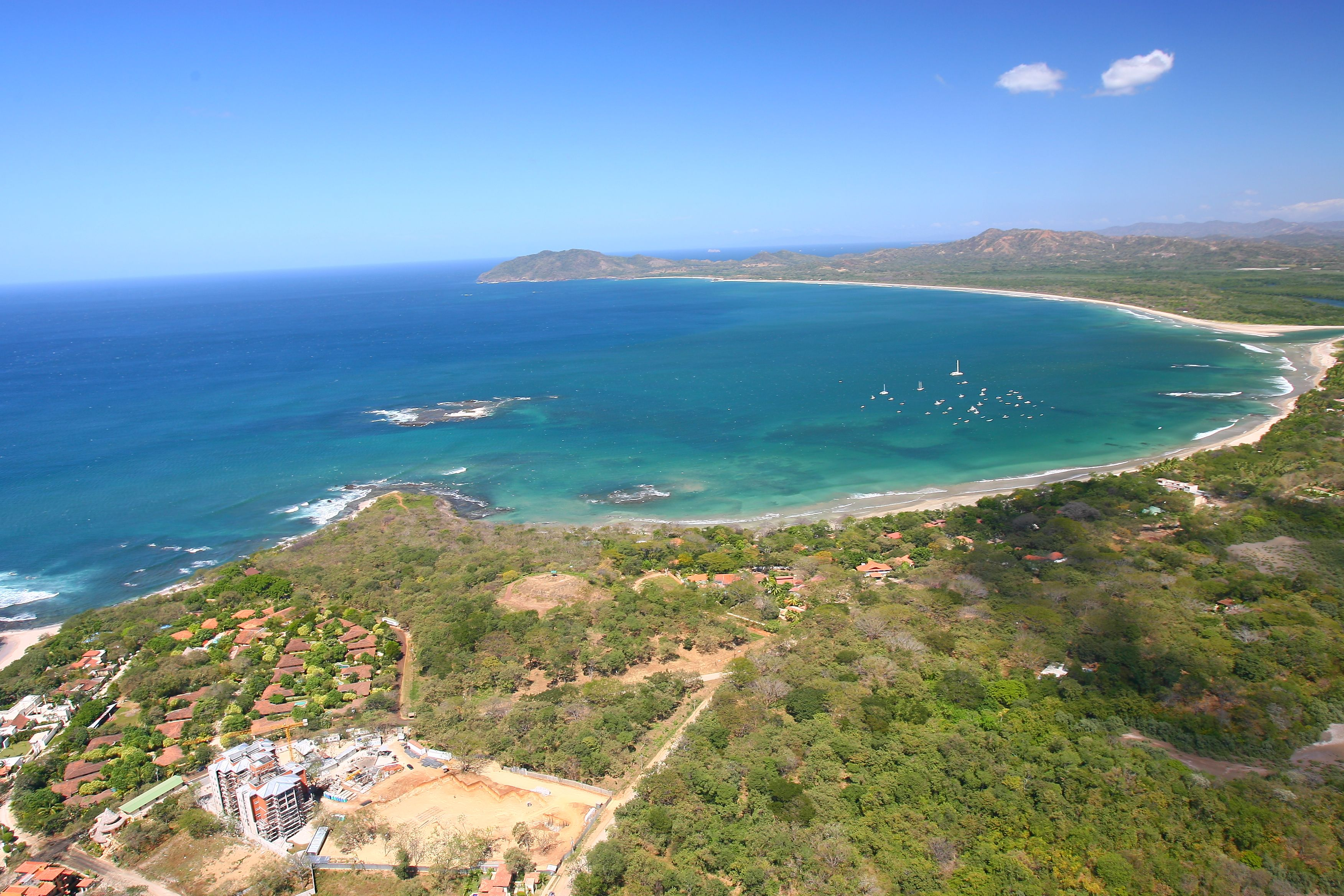 2007 Costa Rica aerial photo of Playa Langosta and Isla Capitan showing the town and beach of Langosta, Tamarindo and Playa Grande and the Pacific Ocean